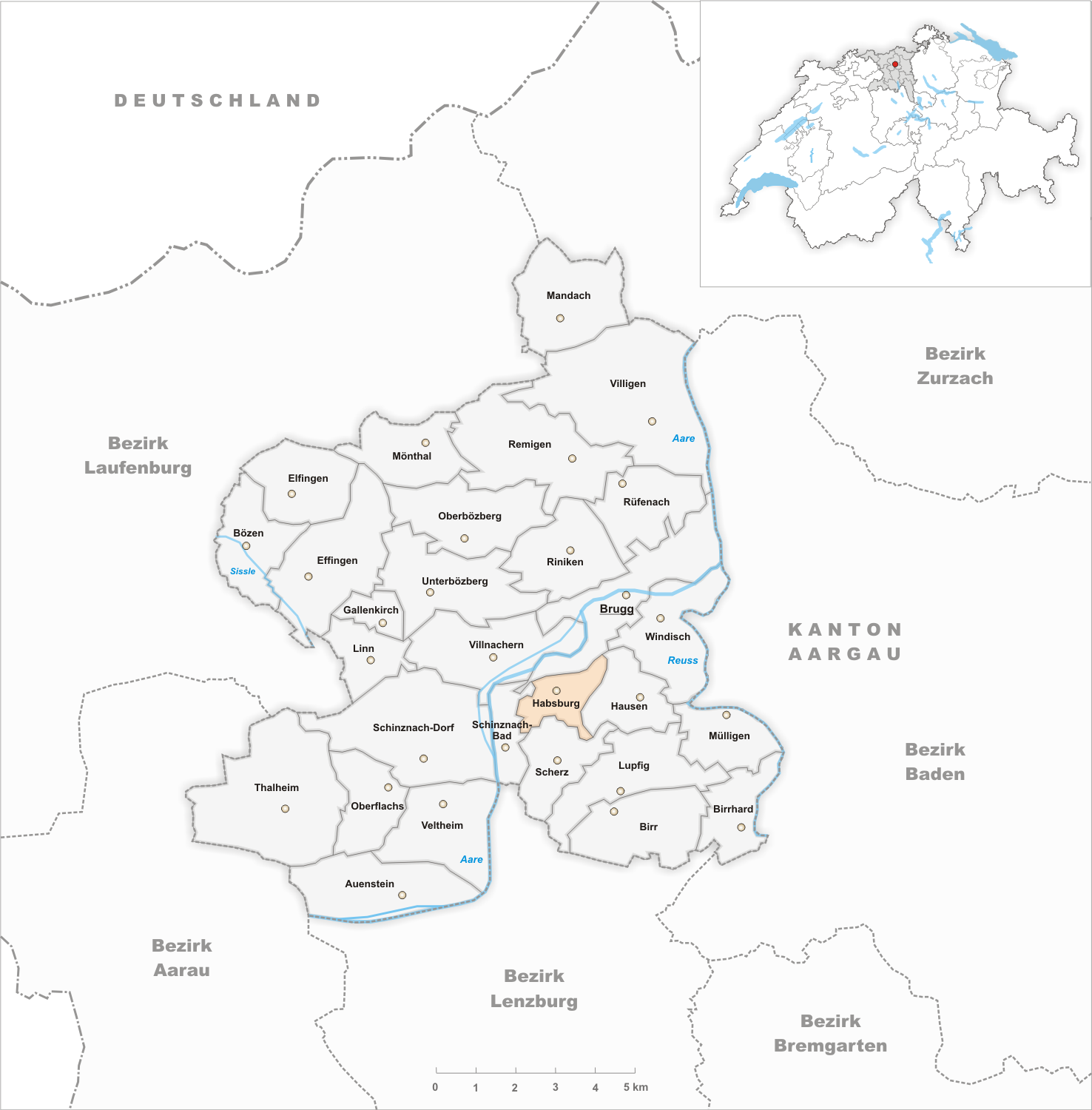 Municipality Habsburg